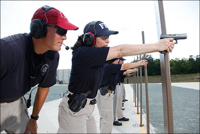 With the help of an FBI instructor, new agents hone their firearms skills at the FBI Academy in Quantico, Virginia.